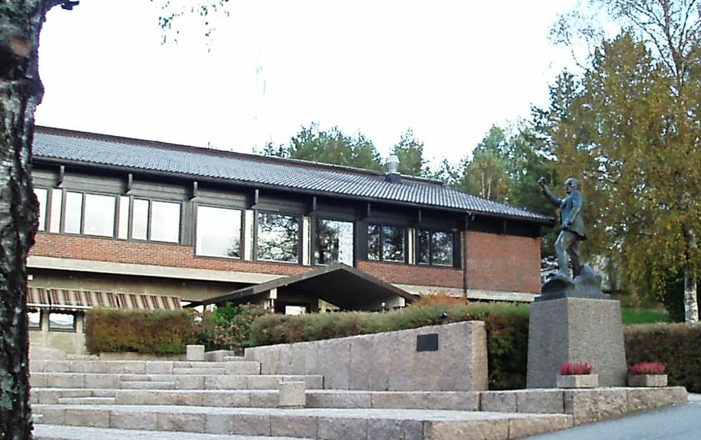 Sørmarka in Ski kommune, Akershus, Norway. Conference center of the norwegian Labour Organization, LO.